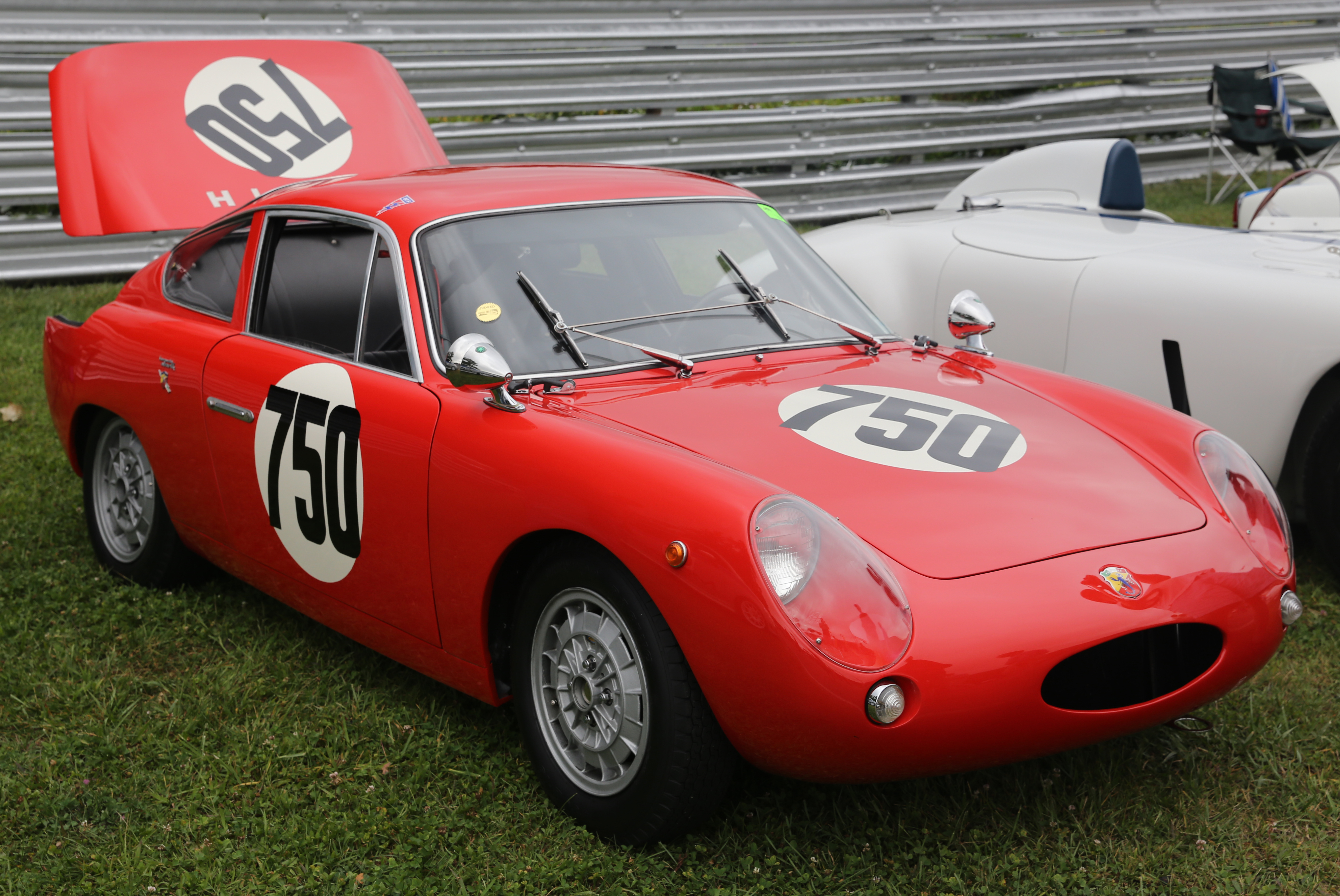 A 1963 Abarth Monomille at the 2014 Lime Rock Concours d'Élegance. This car has bodywork by Abarth Carrozzeria, and its original pushrod engine has been replaced by a twin-cam bialbero unit with twin Weber carburettors.